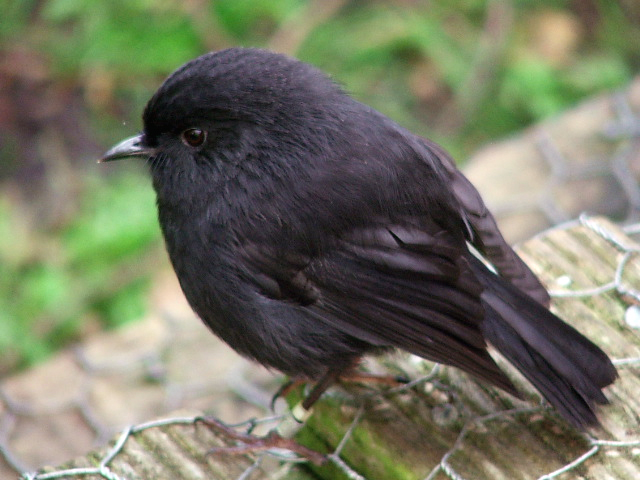 The endangered Black Robin or Chatham Island Robin (Petroica traversi), on South East Island/Rangatira Island. Endemic to New Zealand. Photographer does not know whether this bird is male or female. There are now around 250 black robins but in 1980 only five survived on Little Mangere Island. They were saved from extinction by Don Merton and his Wildlife Service team, and by "Old Blue", the last remaining fertile female.